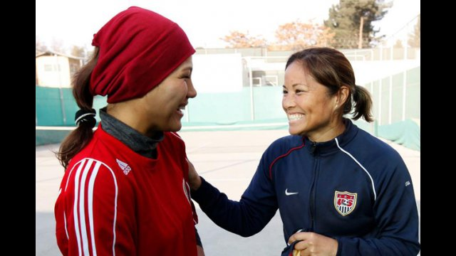 Lorrie Fair with Zahra Mahmoudi, captain of Afghanistan women's national team